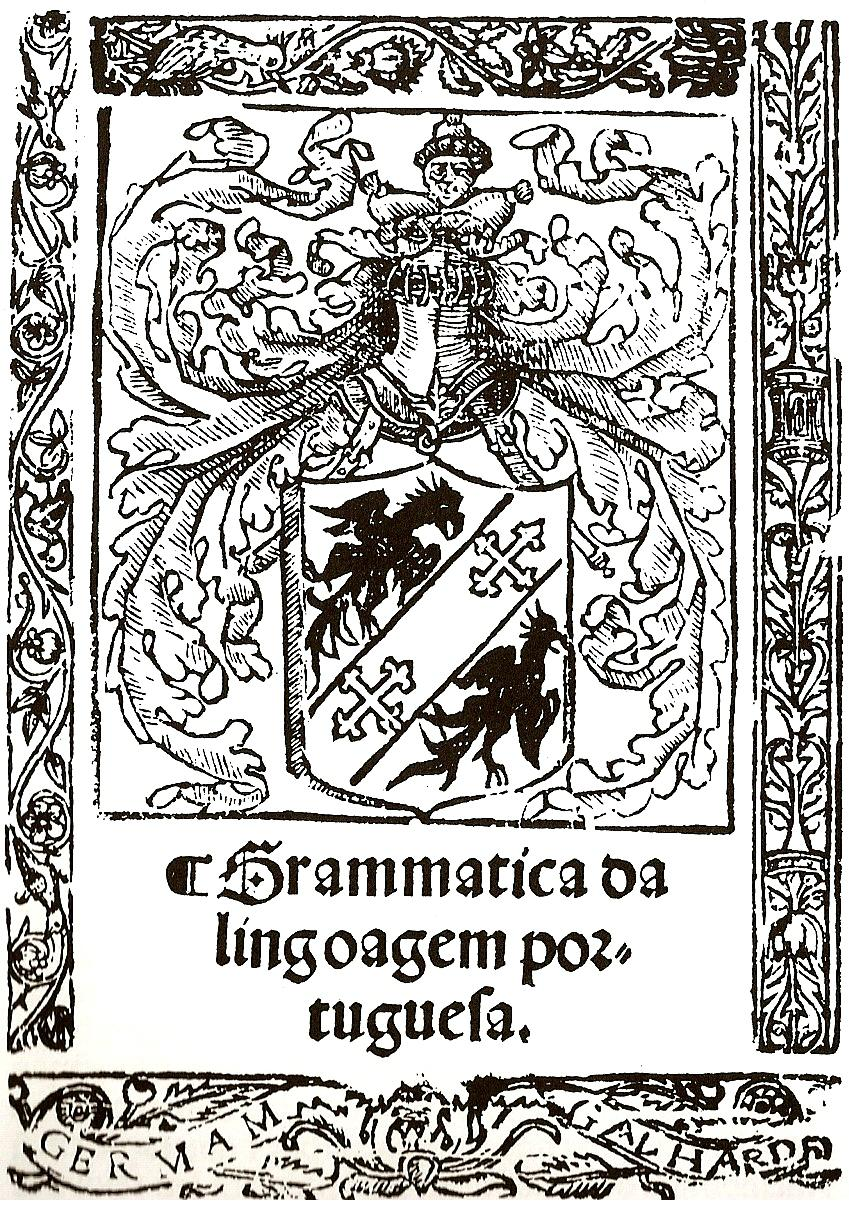 16th century